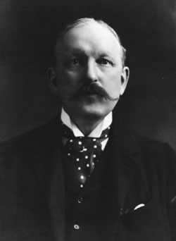 William Woodville Rockhill (1854-1914), U.S. Ambassador to Russia.